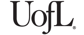 The logo of The University of Louisville.